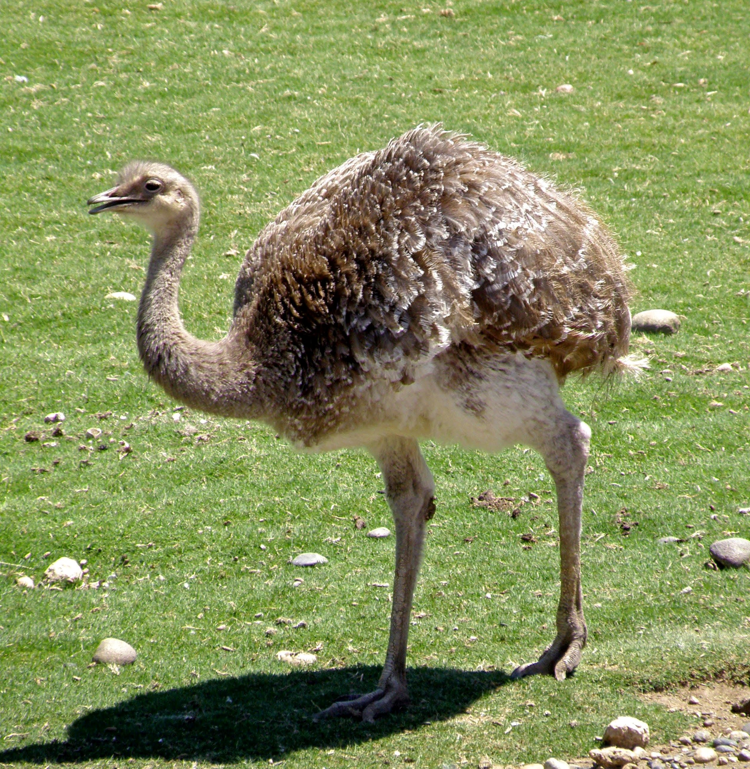 Patagonian Lesser Rhea